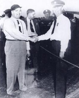 Herbert O. Fisher shaking hands with Curtiss-Wright Fire Chief John L. Ward. Australian ace Clive Caldwell is behind them in coat and tie. Buffalo, New York.